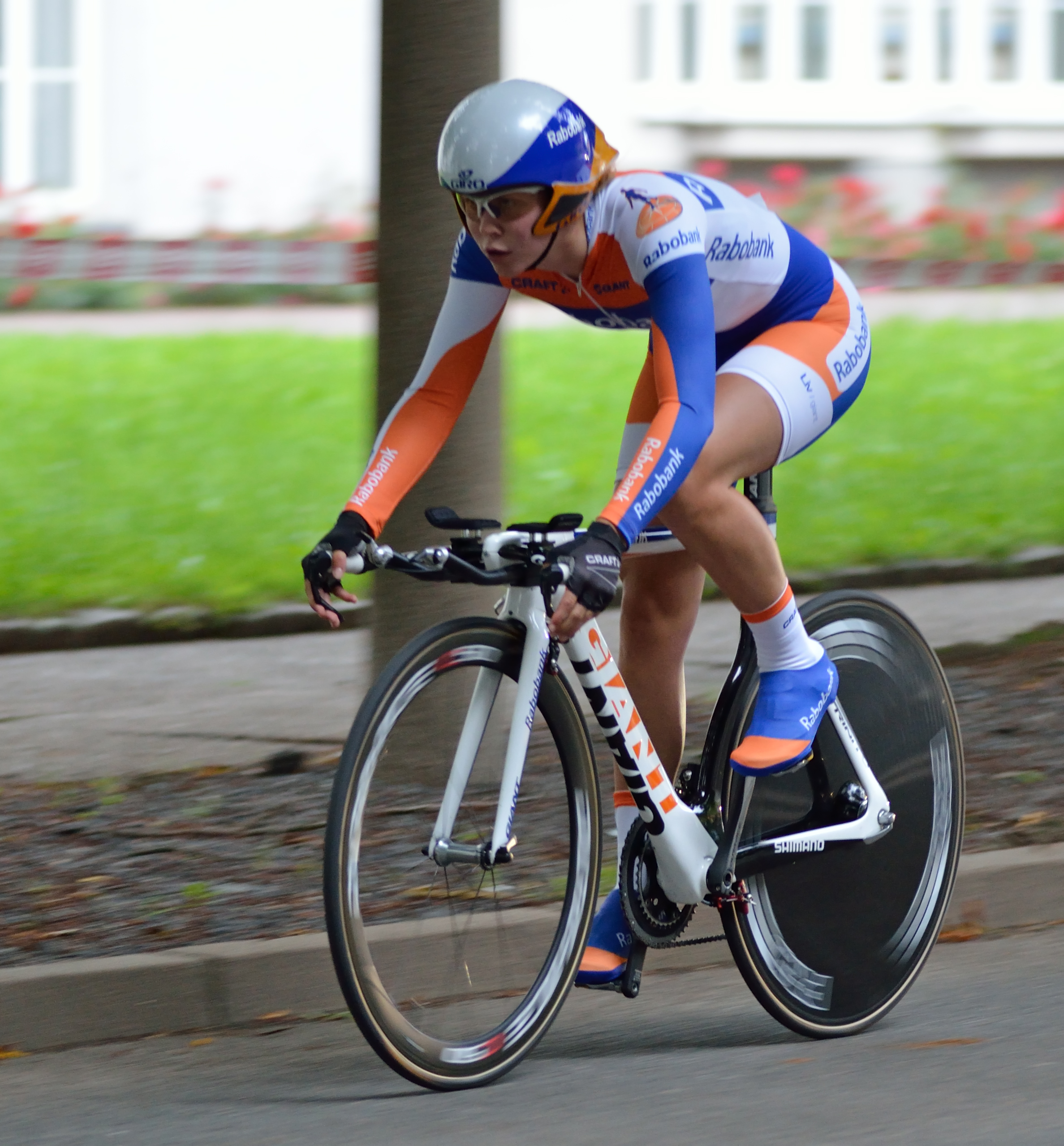 Thalita de Jong from the Rabobank Women Cycling Team during the Women's Tour of Thuringia 2012 in Zwickau, Germany.